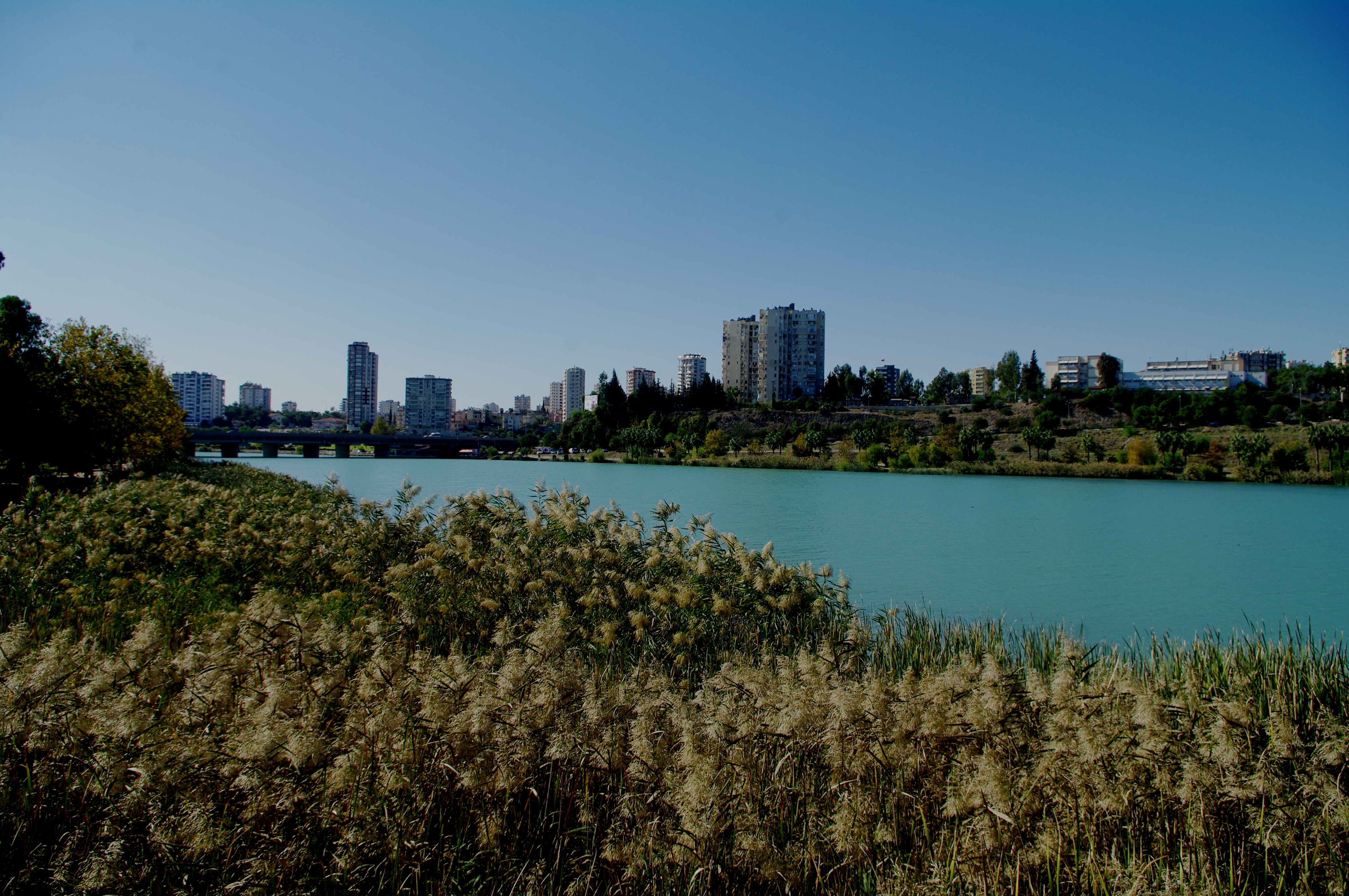 View of Eskibaraj Dam Lake on Seyhan River. Adana - Turkey.